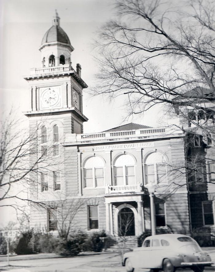 old picture of the courthouse in Warren